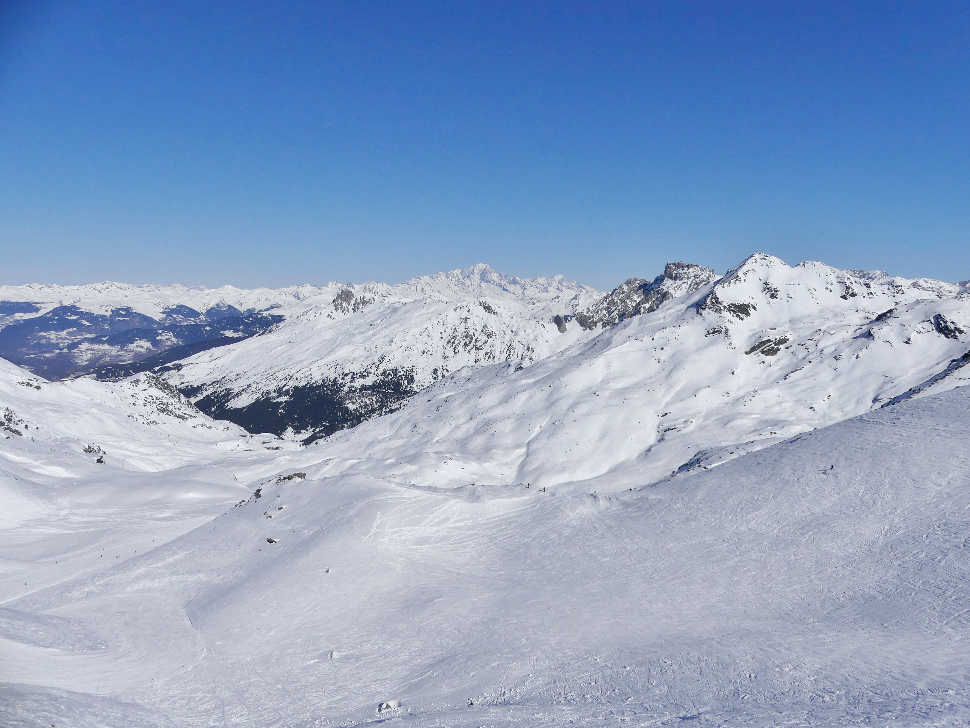 Sight, in winter, of Méribel ski resort area, from the col de la Chambre pass separating both Méribel and Val Thorens resorts, in Savoie, France.